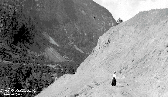 This image of an unknown woman in June of 1910 shows her standing on the road grade of the wagon road from Seton Lake to Lillooet, which was the last leg of the series of roads and lake ferries comprising the Douglas Road from Harrison Lake to the Fraser River. This section of road remained in use after the construction of the Pacific Great Eastern railway a few years later, and served as the connection from the railway station at Craig Lodge on Seton Lake into town, as the original railway stataion in Lillooet was in today's East Lillooet, with the rail line using an older, now-demolished bridge just south of the location of this photo. When the railway was re-routed during World War II, the road grade seen here became incorporated into the railway's new routing into and through town. As this image was taken in 1910, it is in the public domain under Canadian copyright law. The photographer, Frank Swannell, was a famous government surveyor whose career spanned the era of pack trains with the air age. His photos and documents comprise a special section of the BC Provincial Archives.